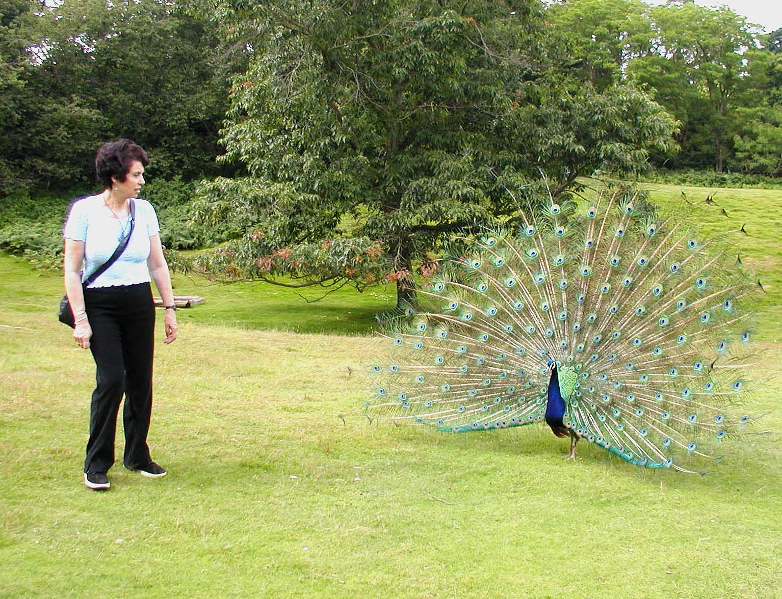 A peacock displays to a visitor (my wife) on Brownsea Island. Taken by Adrian Pingstone in July 2002 and released to the public domain. This work has been released into the public domain by its author, Arpingstone at English Wikipedia. This applies worldwide.In some countries this may not be legally possible; if so:Arpingstone grants anyone the right to use this work for any purpose, without any conditions, unless such conditions are required by law.